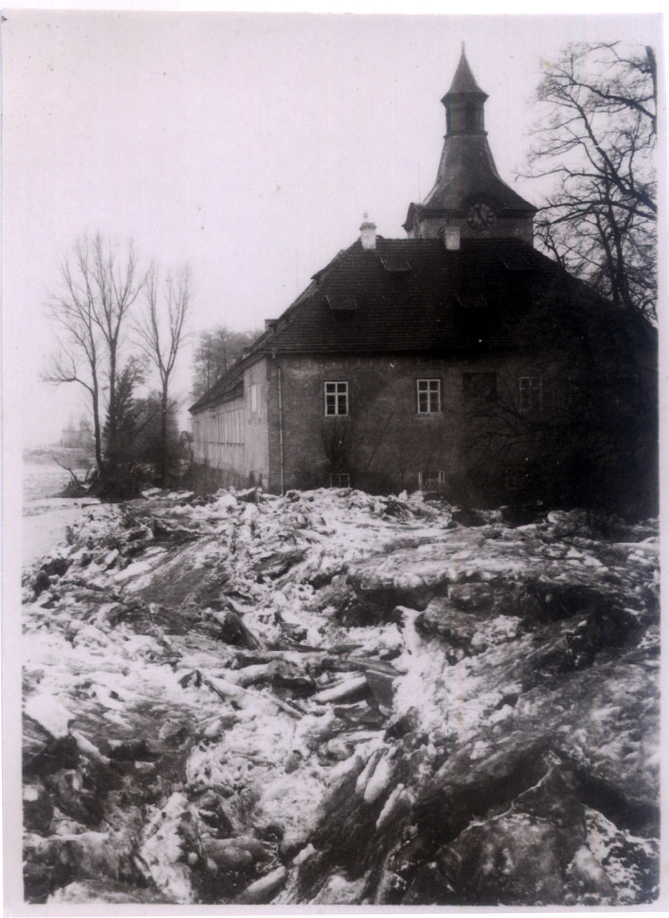 Ice at Dobřichovice Castle on Berounka River during Winter Floods in 1941 (or possibly 1947)